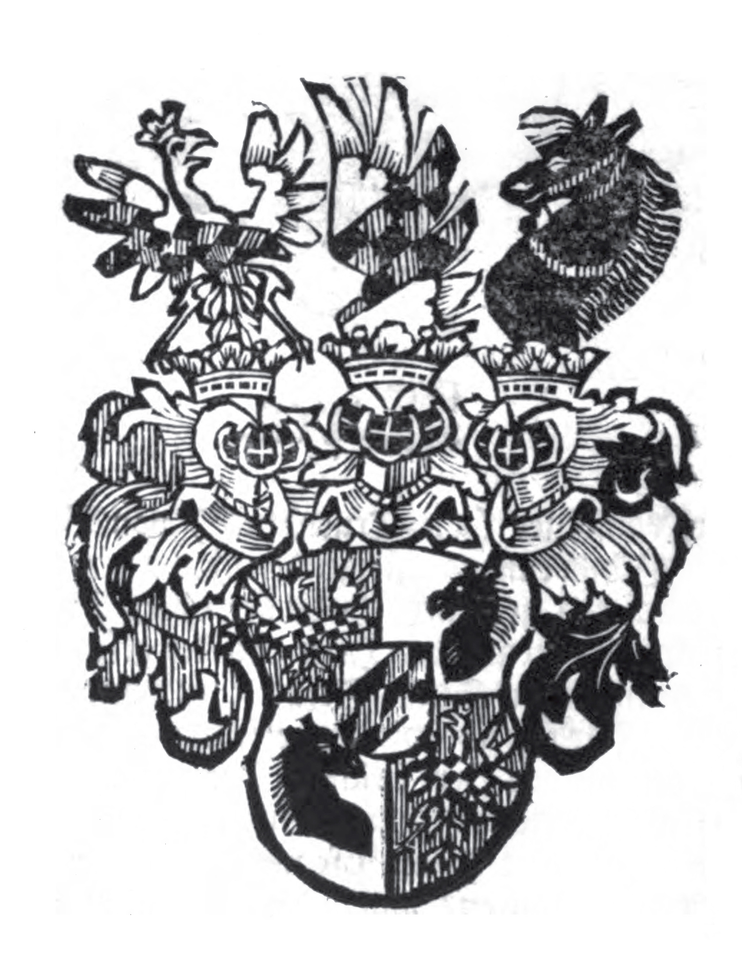 Coat of Arms of Tschernembl, Austria